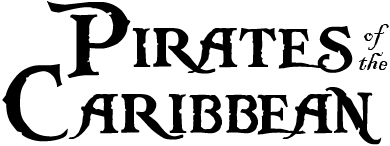 Typefaced logo from Pirates of the Caribbean movie.